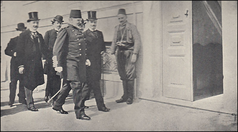 General di Giorgis, Inspector-General of Macedonian Gendarmerie, going to be presented to Hilmi Pasha on his arrival